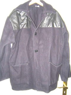 A Donkey Jacket with PVC panels (bryce byerley)